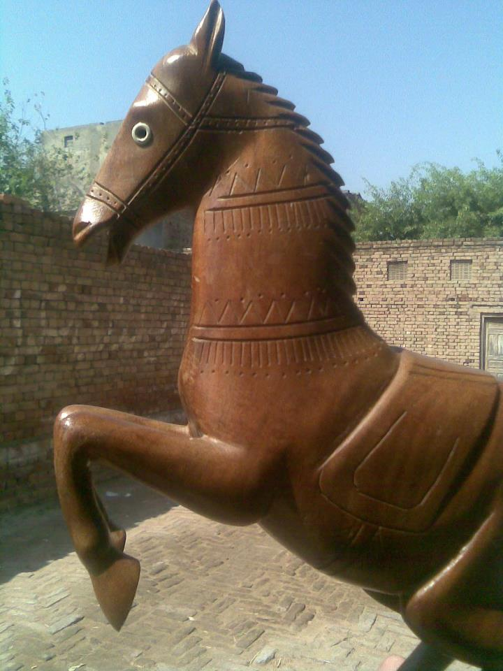 sillanwali ghora by Farhan aslam